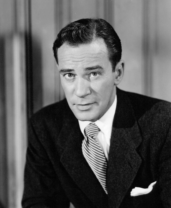 Photo of Richard Carlson from an appearance on Schlitz Playhouse of Stars.